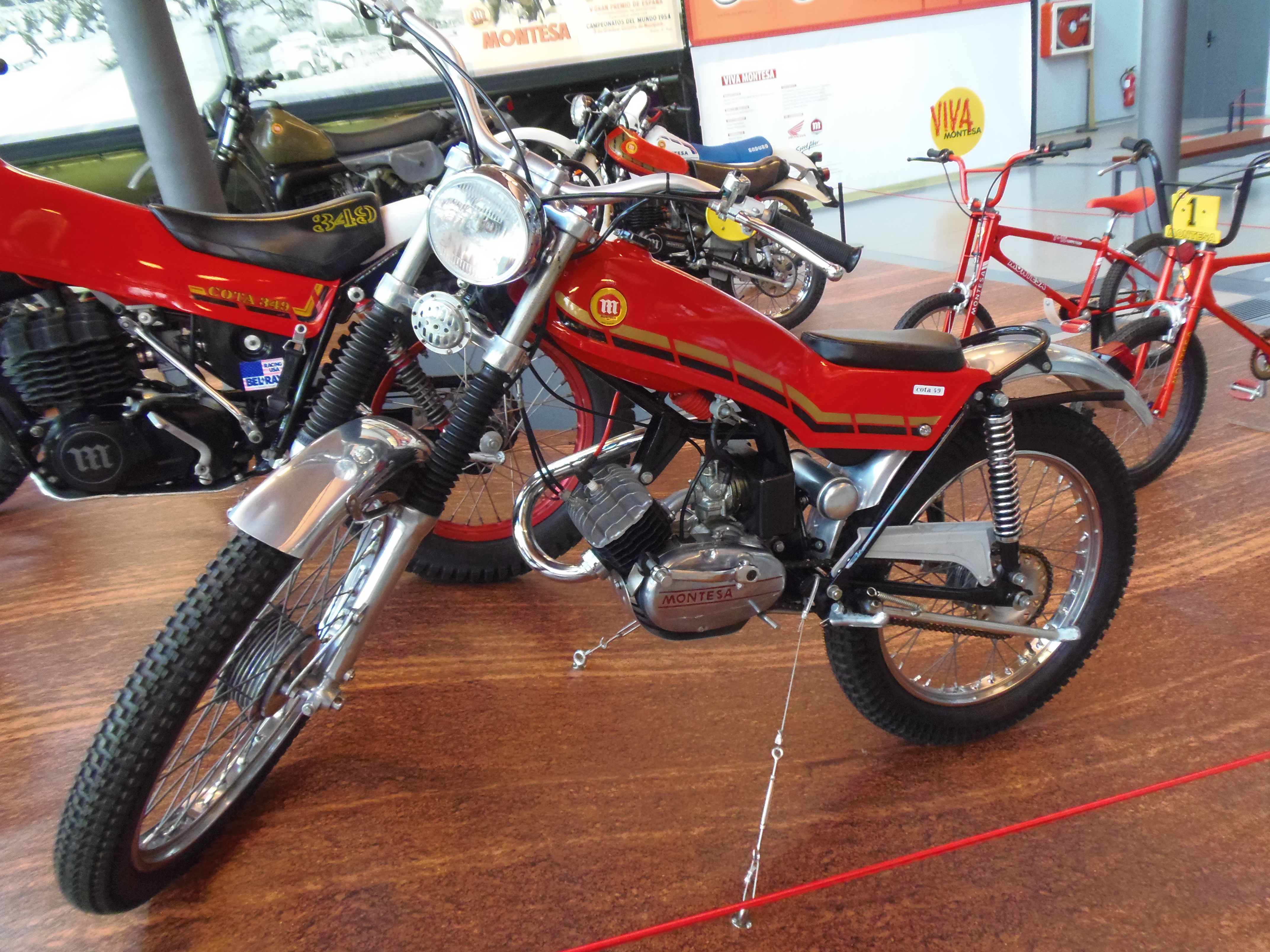 Montesa Cota 49, 1978